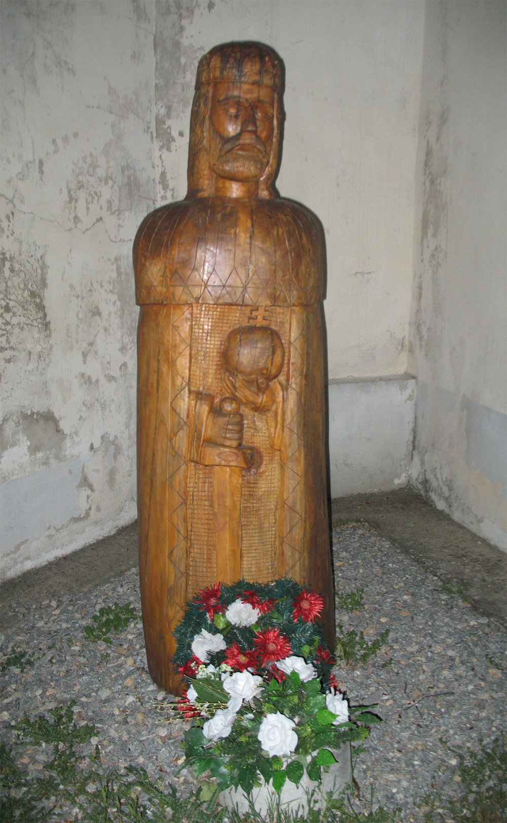 at Church of Kolíňany